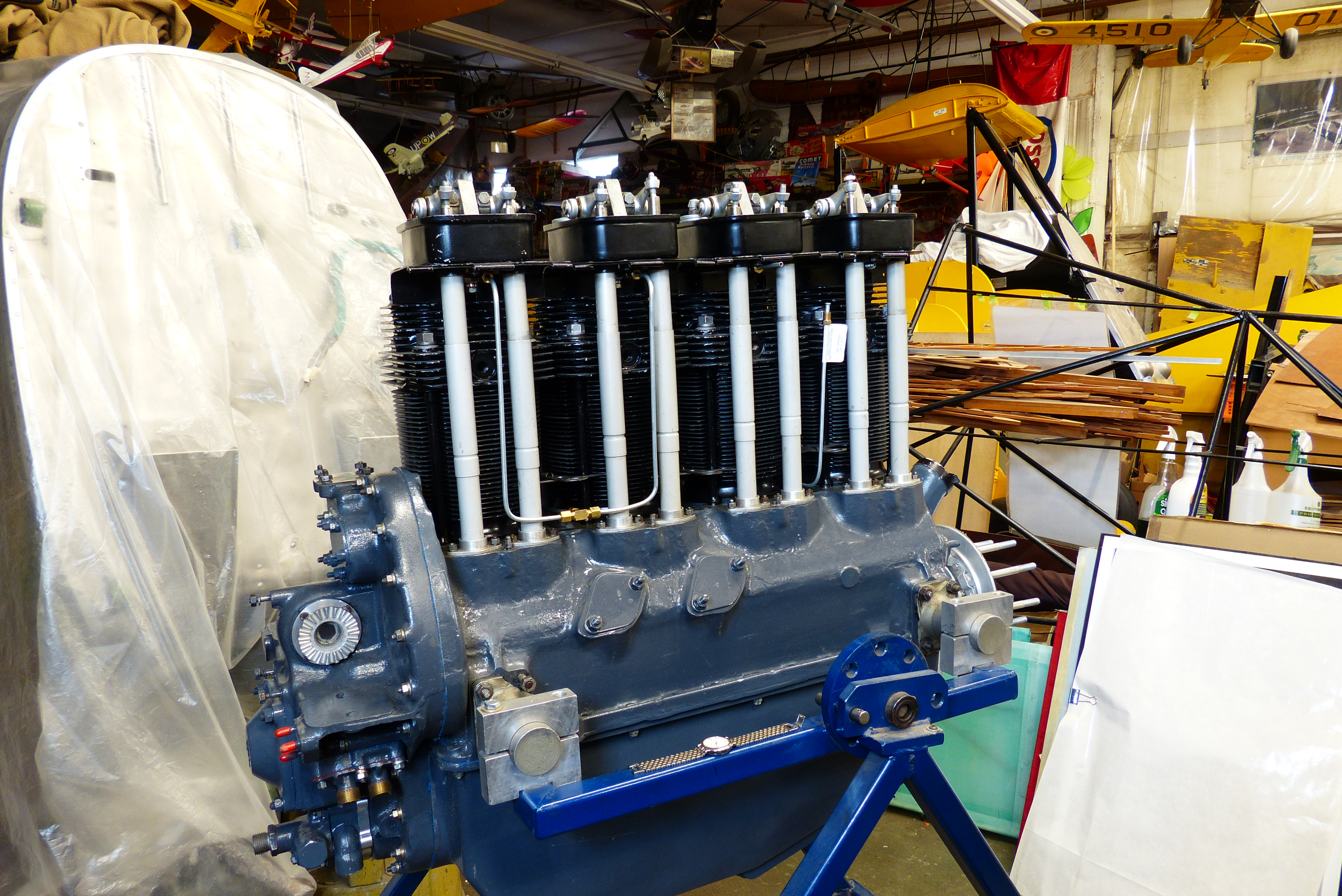 Gypsy Major 1C under restoration at the Tiger Boys Aircraft Works in July 2015. Starboard side. The yellow aircraft in the background is a de Havilland Gypsy Moth. Photo taken with permission of Mr. Tom Dietrich.